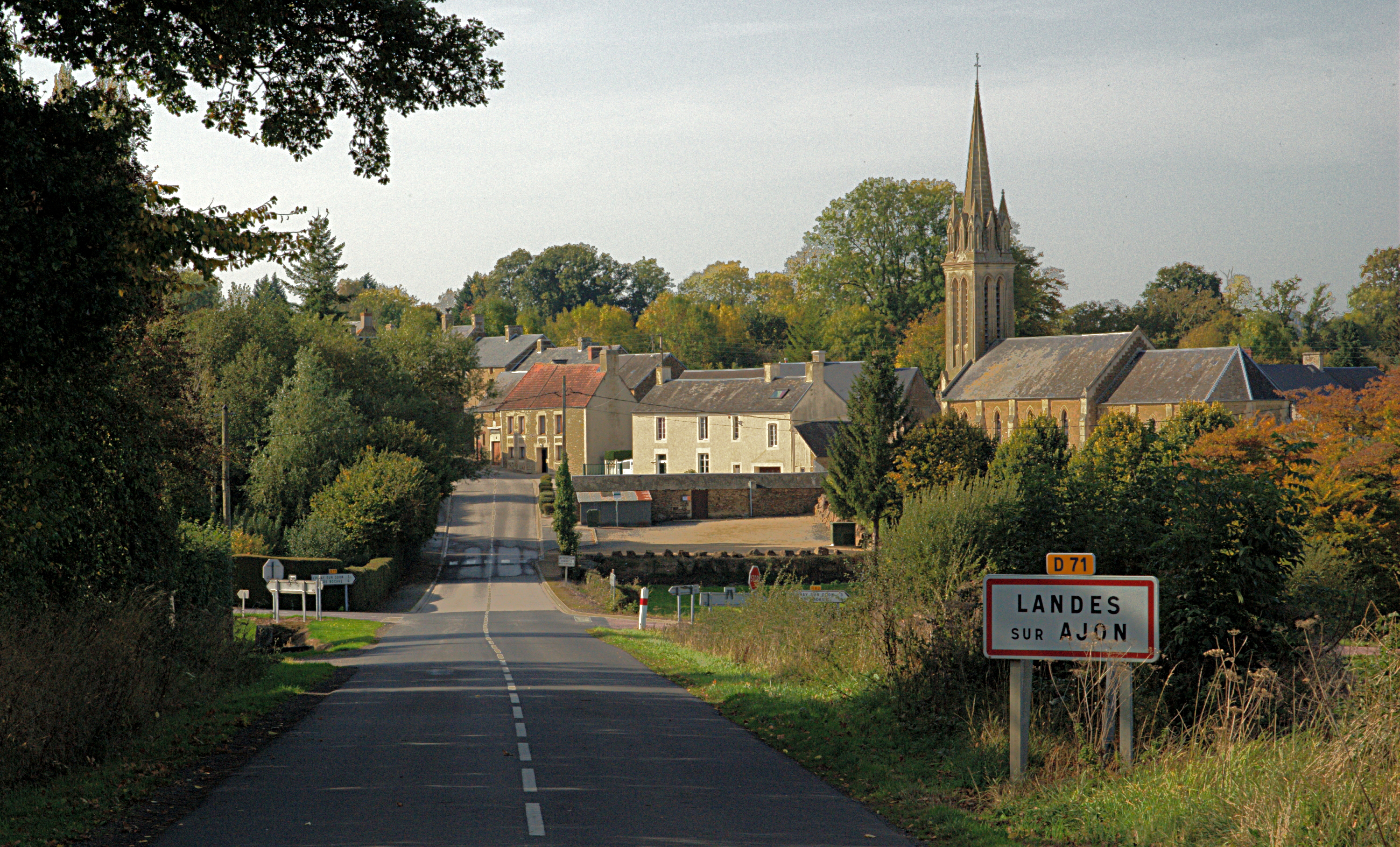 Landes-sur-Ajon village, Calvados, French.